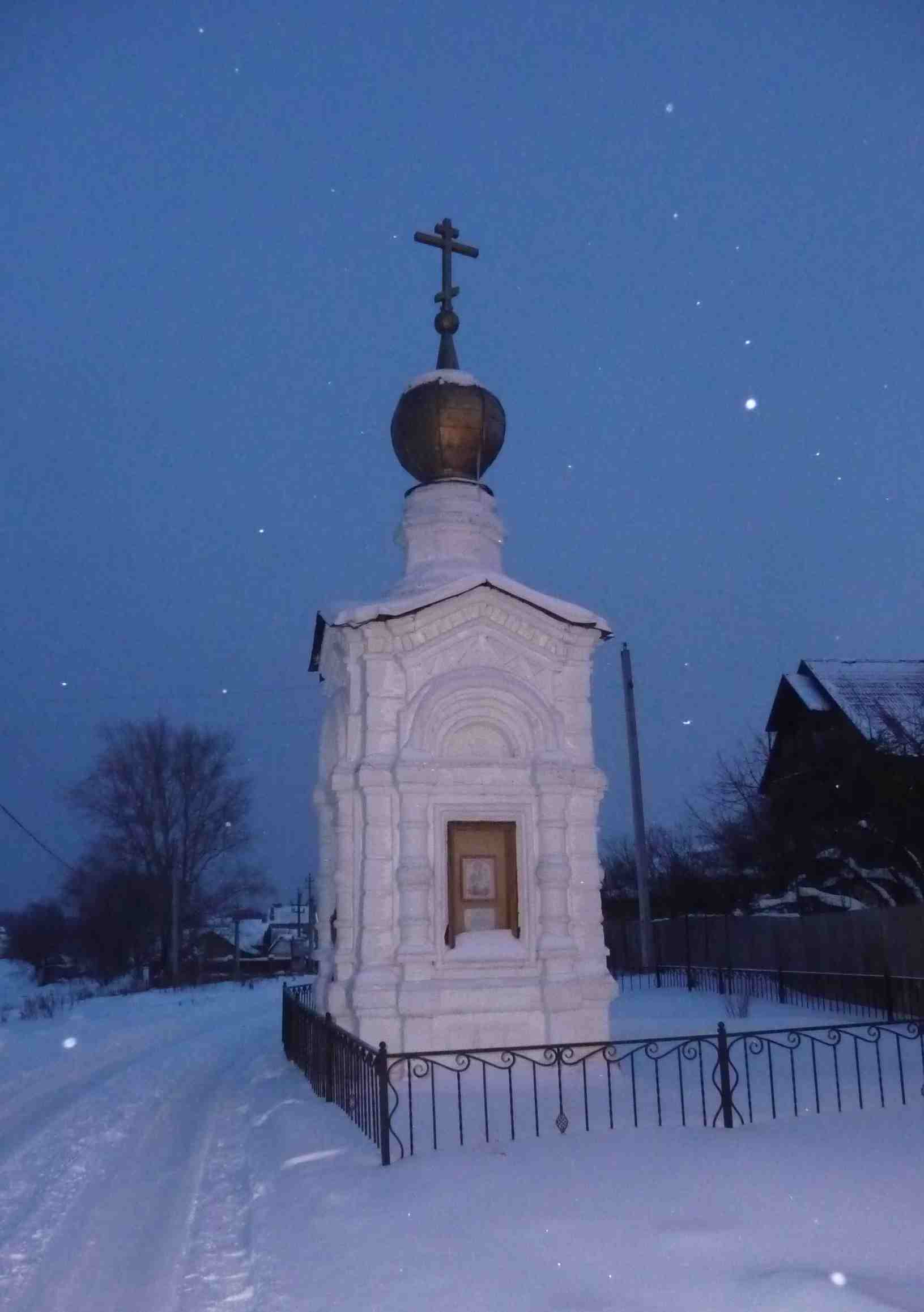 The Chapel (1905) in the village of Staraya Sloboda. Shchyolkovsky district, Moscow oblast, Russia.